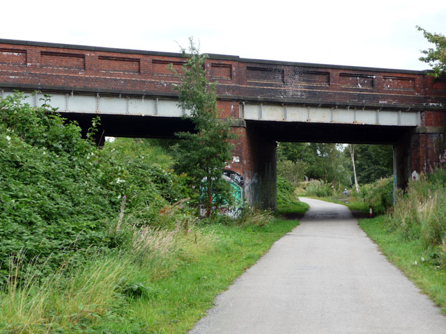 Bridge carrying St Werburgh's Road over the Fallowfield Loop Cycleway, CTYPE html PUBLIC "-//W3C//DTD XHTML 1.0 Strict//EN" " Bridge carrying St Werburgh's Road over the Fallowfield Loop Cycleway:: OS grid SJ8293 :: Geograph Britain and Ireland - photograph every grid square! Geograph - photograph every grid square SJ8293 : Bridge carrying St Werburgh's Road over the Fallowfield Loop Cycleway near to Withington, Manchester, Great Britain.